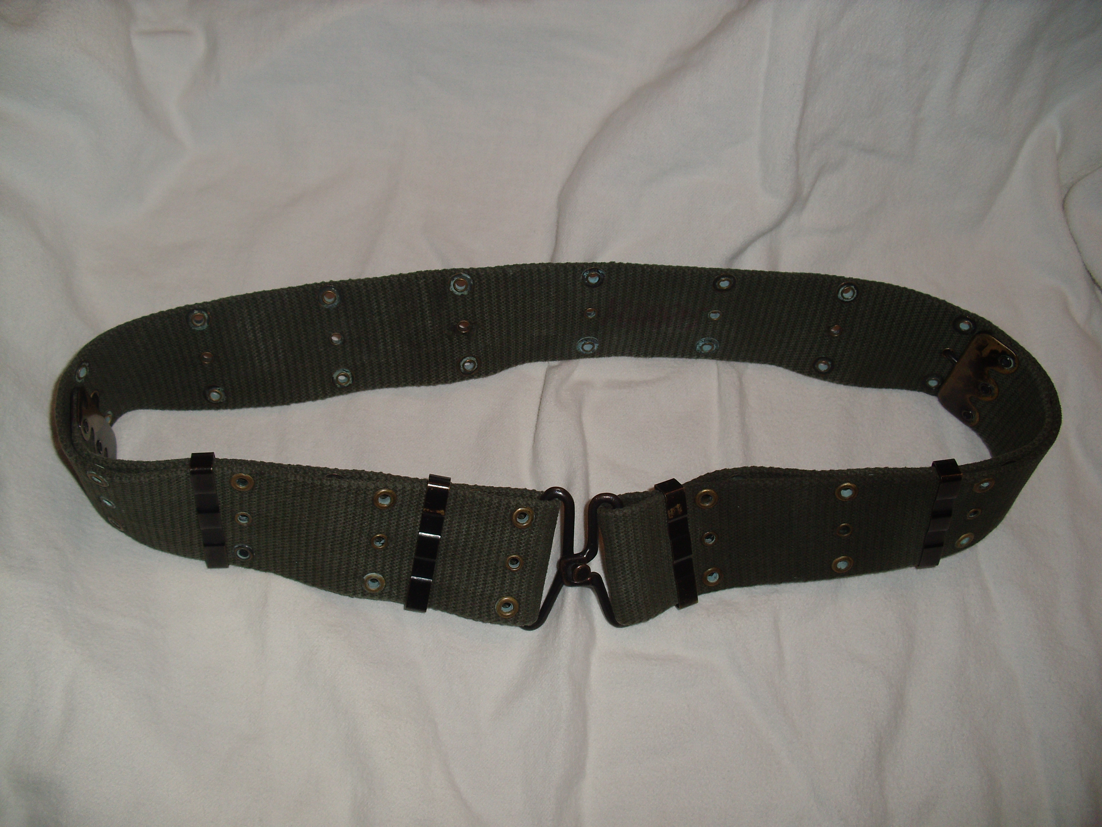 Belt, individual M1956